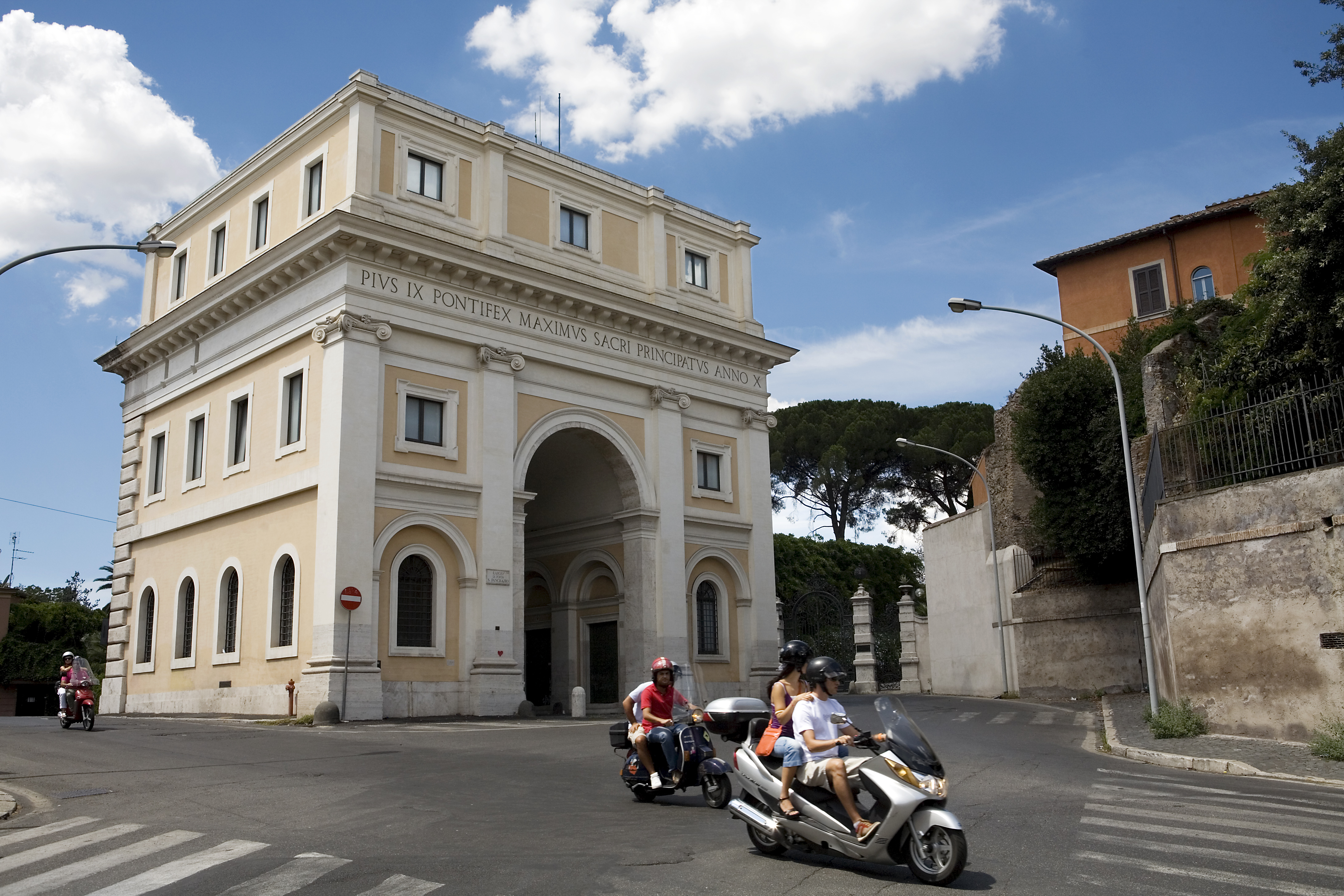 A scooter passes by in front of Porta San Pancrazio in Monte Gianicolo, Rome, Italy